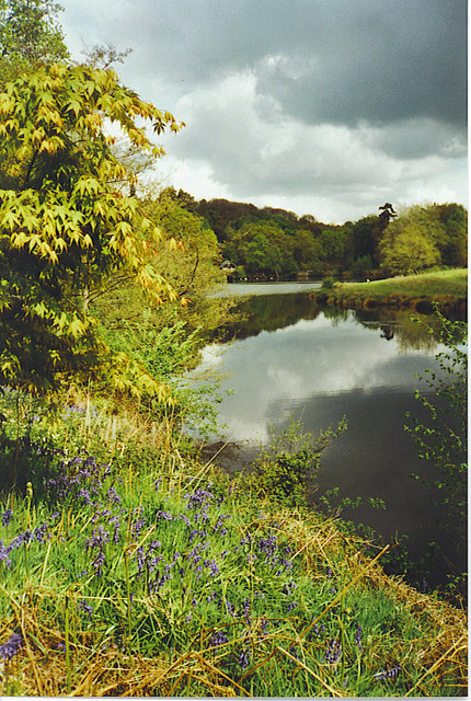 Rowe's Flashe, Winkworth Arboretum. Bluebells and the small lake at the bottom of the valley in the NT's arboretum.